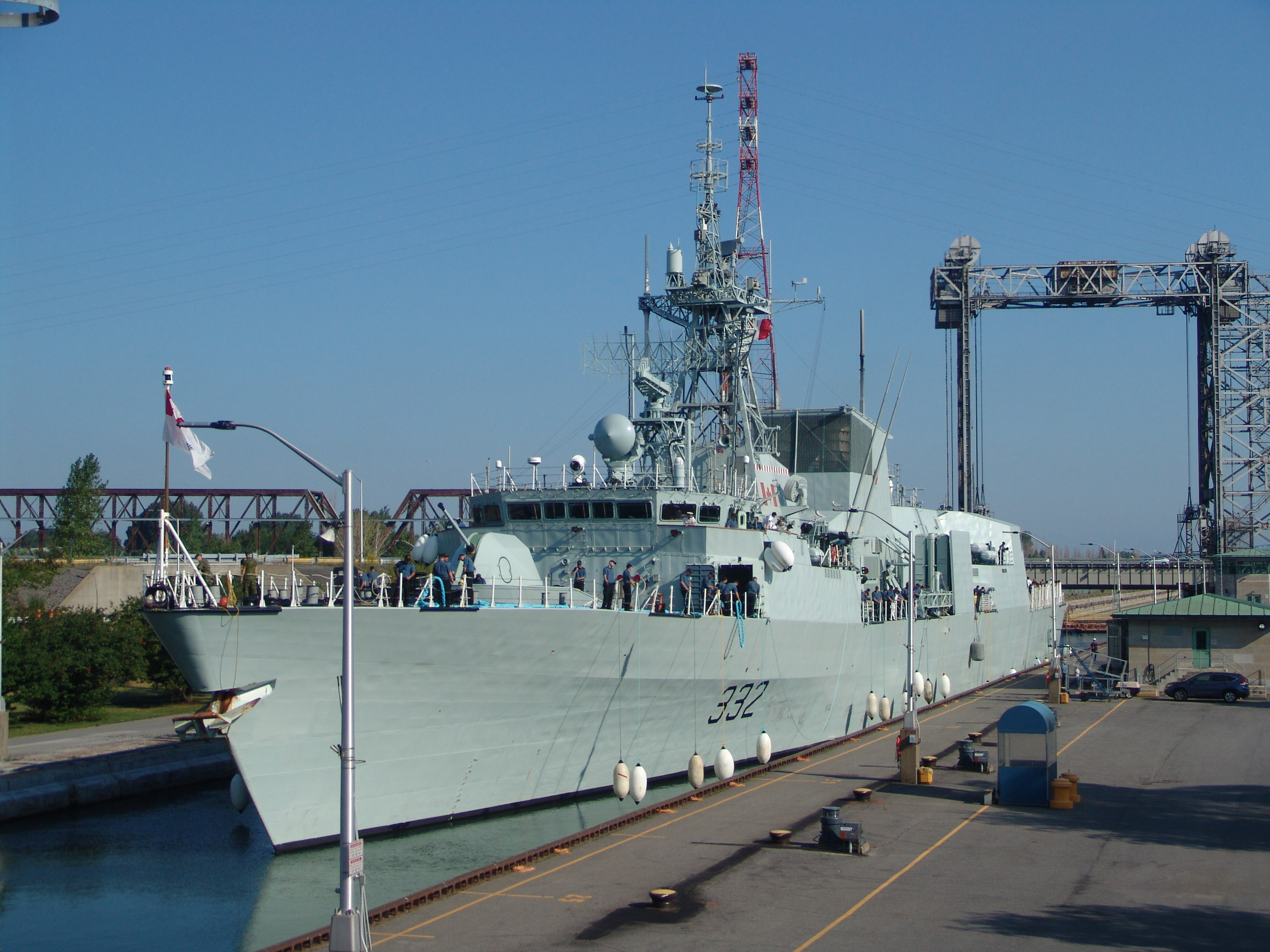 The HMCS Ville de Québec in the Saint-Lambert lock during the 2012 Great Lakes Deployment.